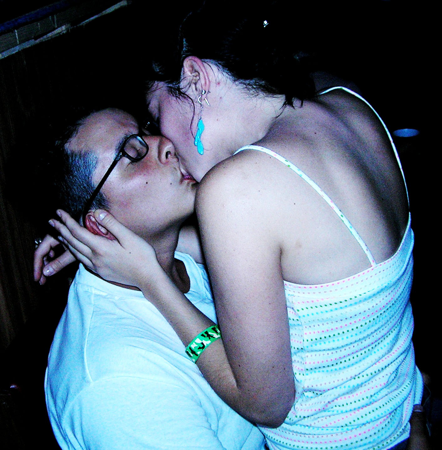 Original Title: Ecstacy